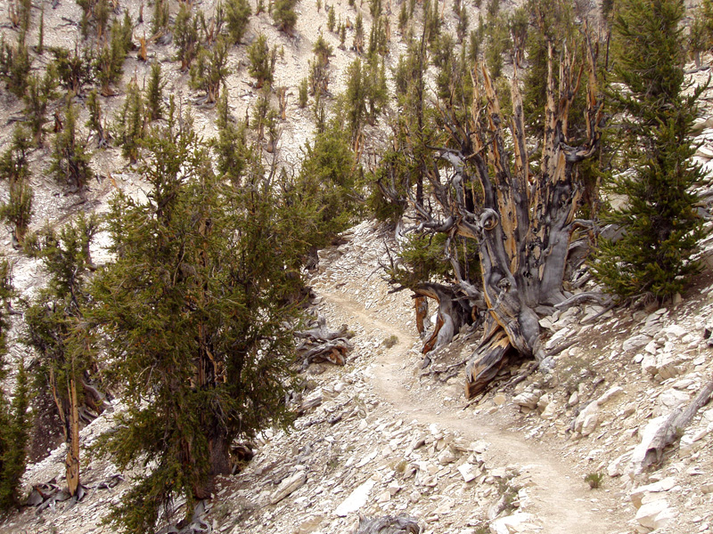 Great Basin Bristlecone Pine (Pinus longaeva) trees, Methuselah Grove, Ancient Bristlecone Pine Forest, eastern California.